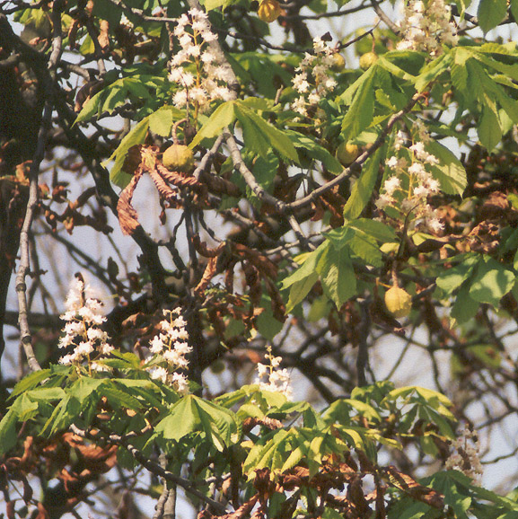 Aesculus hippocastanum tree demaged by Cameraria ohridella. Wrocław, Poland, September 2004. Showing late summer second leafing and flowering.